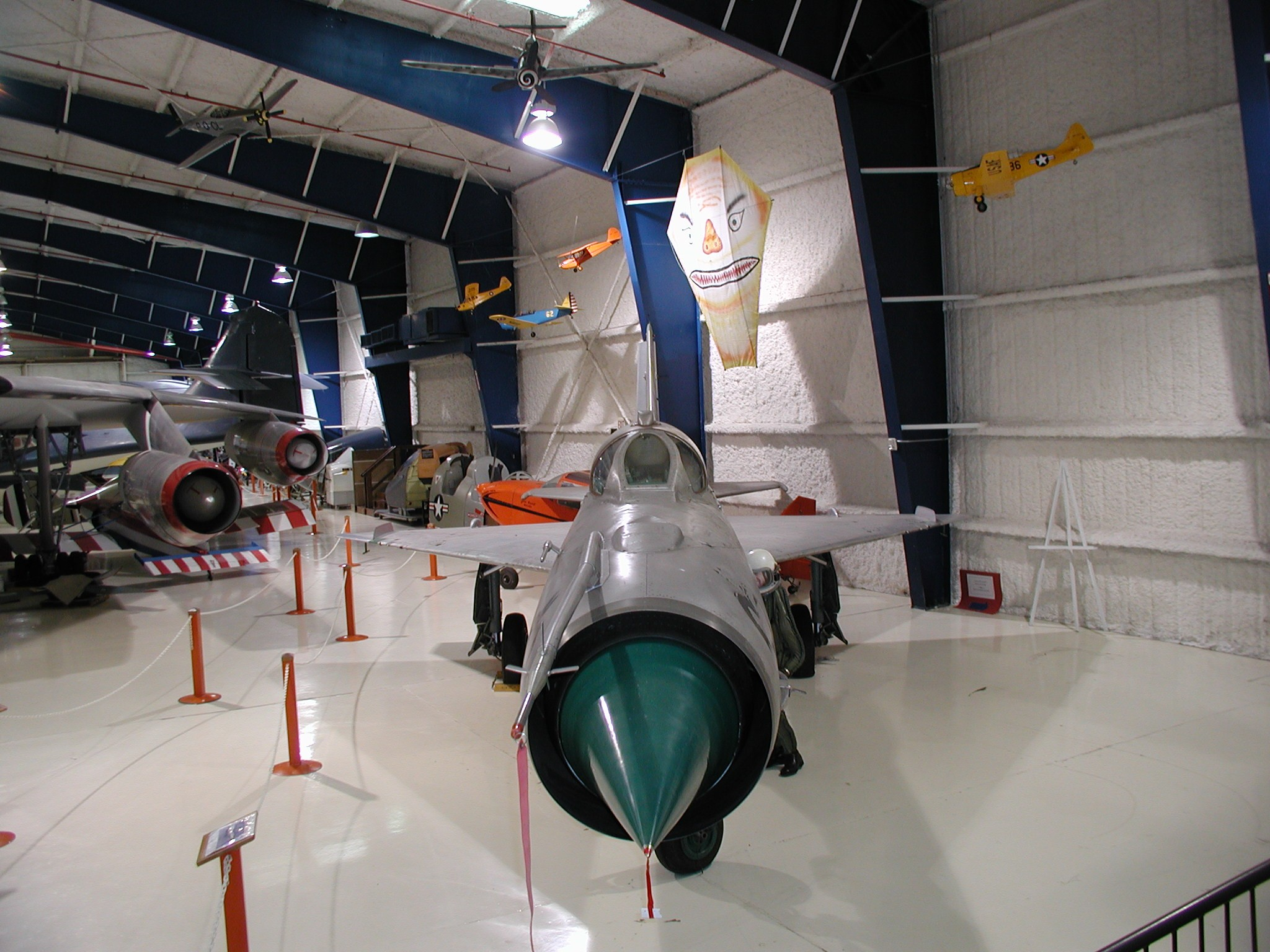 Mikoyan-Gurevich MiG-21